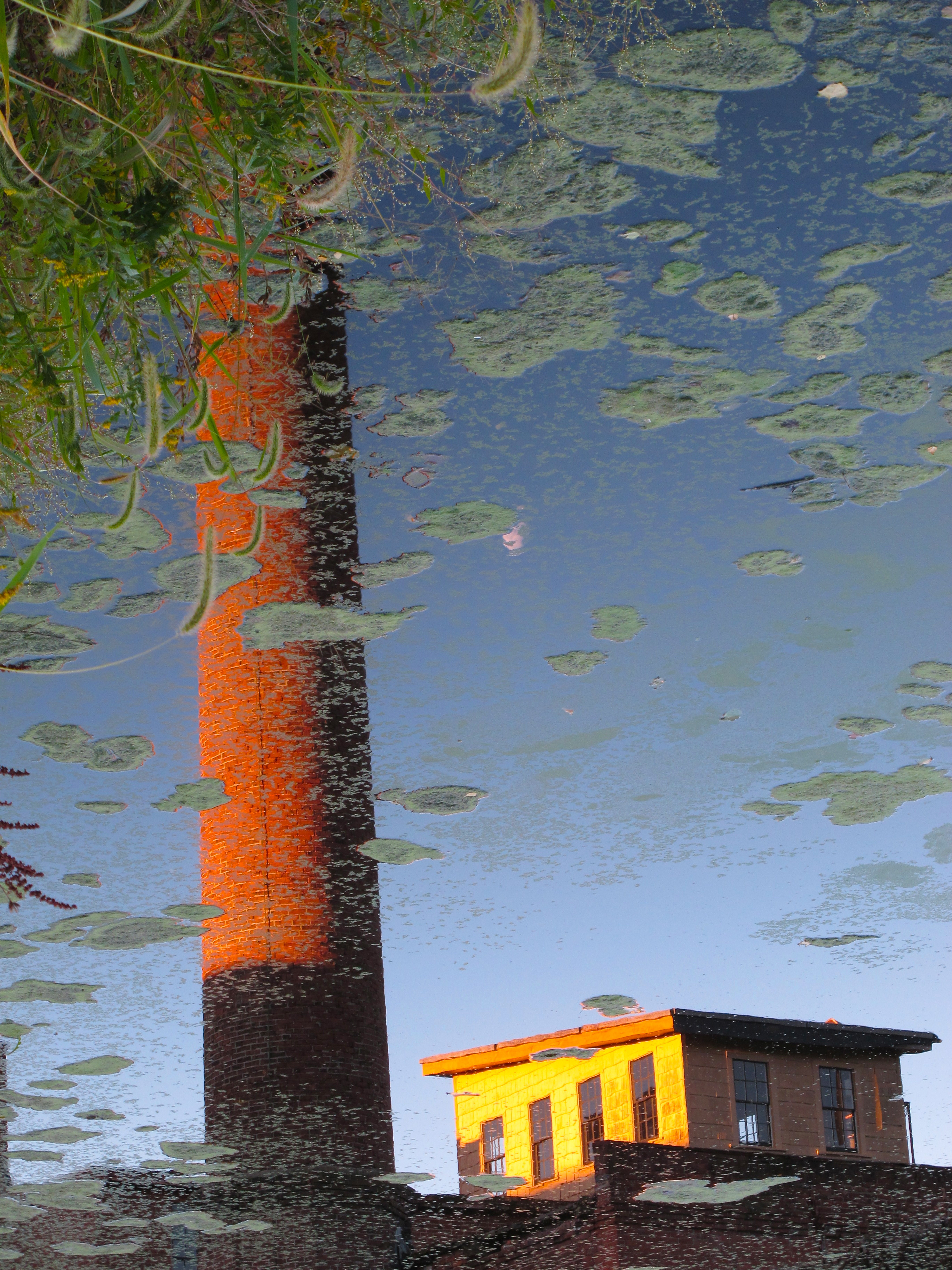 Central Woolen Mills District